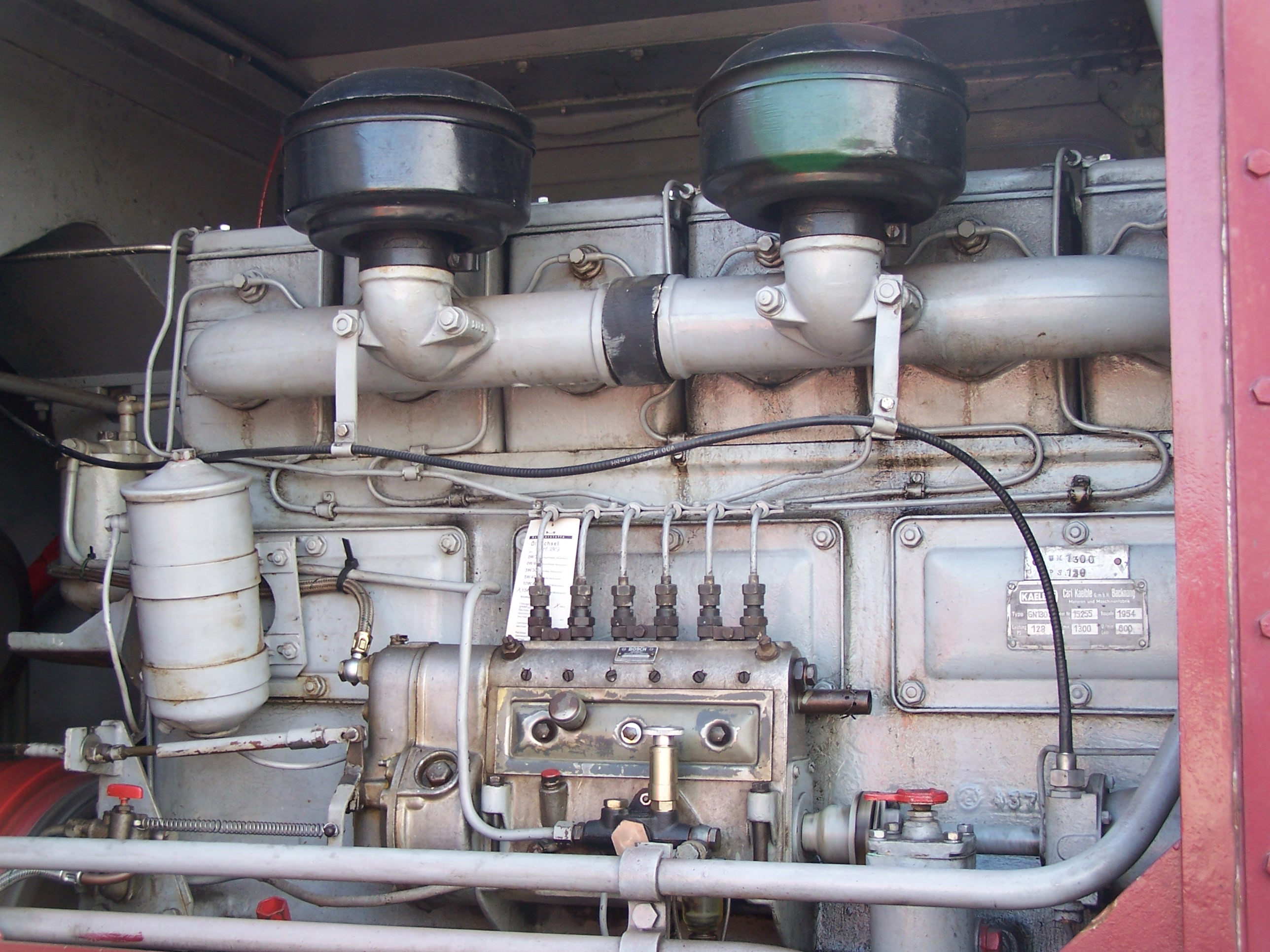 motor of Koe II 322607-3 of the Historische Eisenbahn Frankfurt in Frankfurt am Main on the Hafenbahn ground